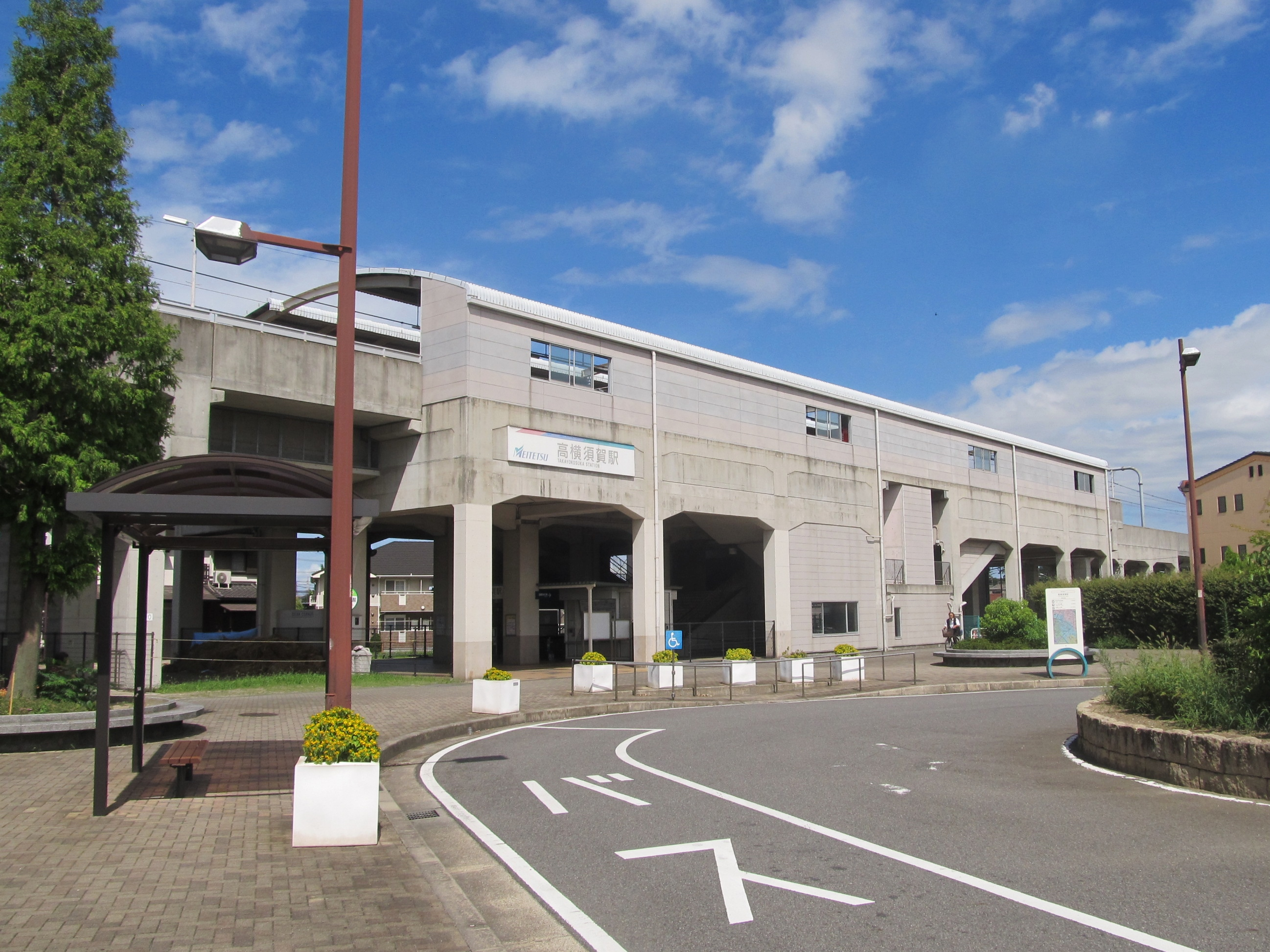 Nagoya Railroad Kowa Line Takayokosuka Station